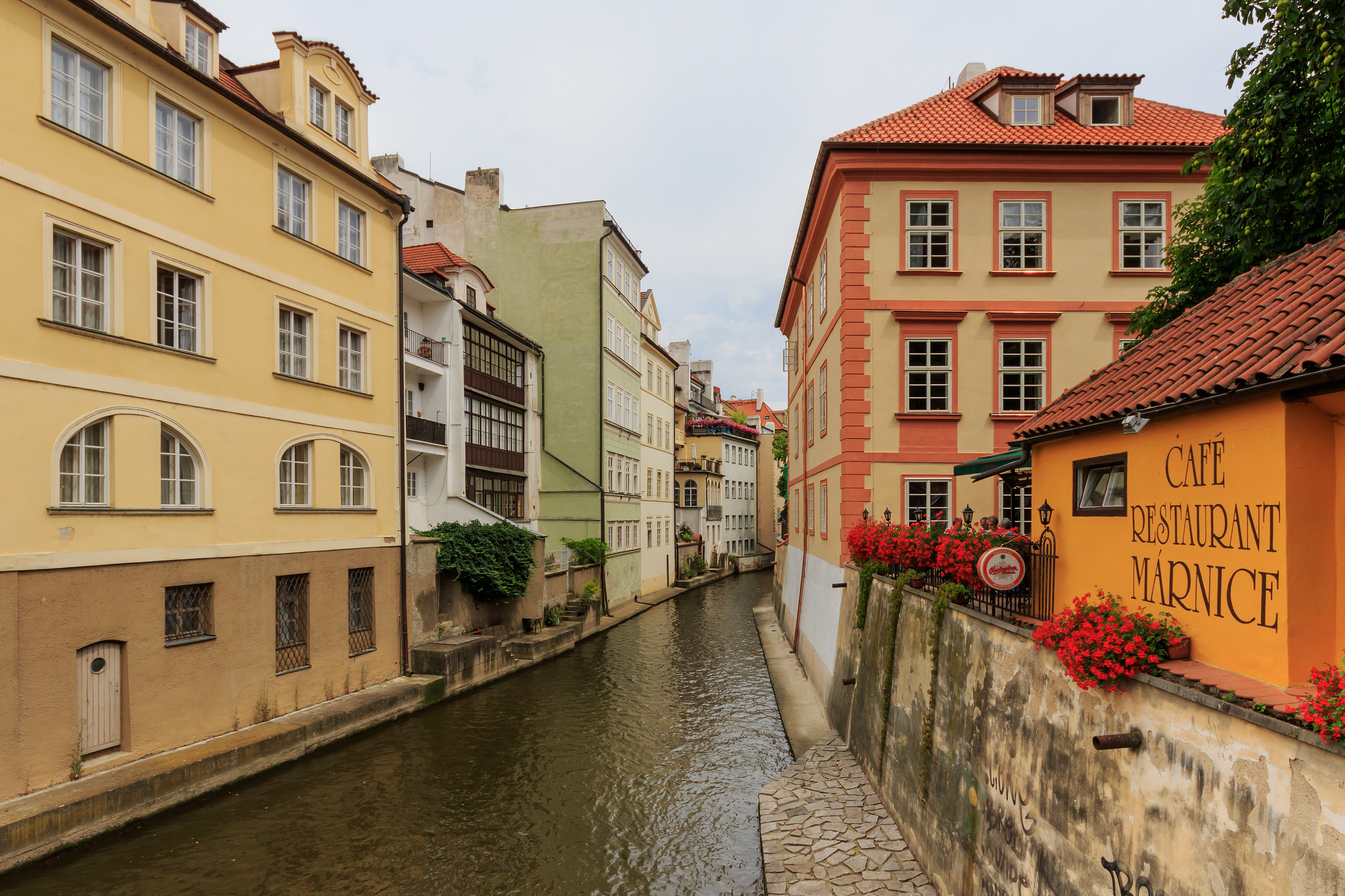 Cityscape in Lesser Town along Čertovka in Prague (Czech Republic)